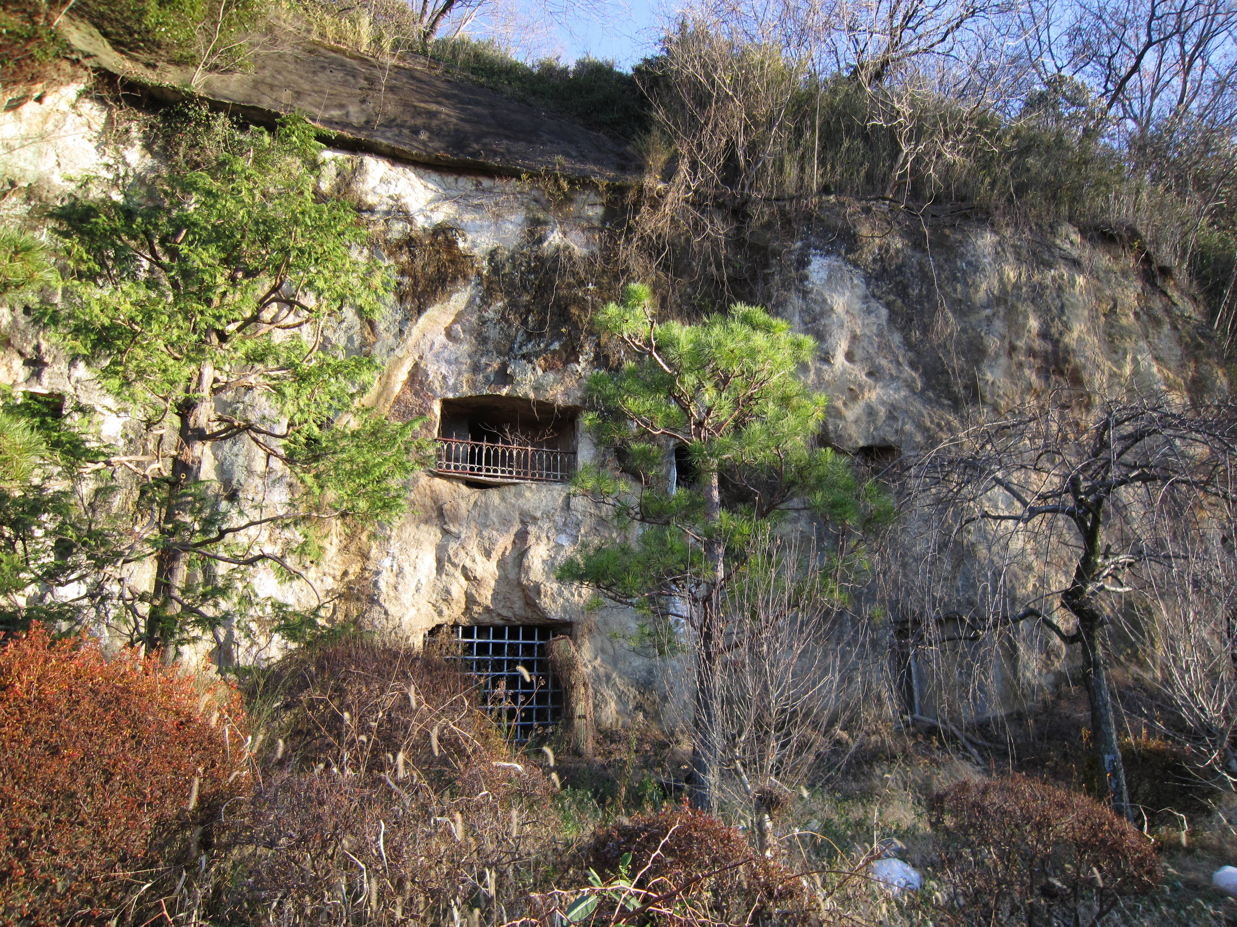 Gankutsu Hotel (Yoshimi, Saitama).